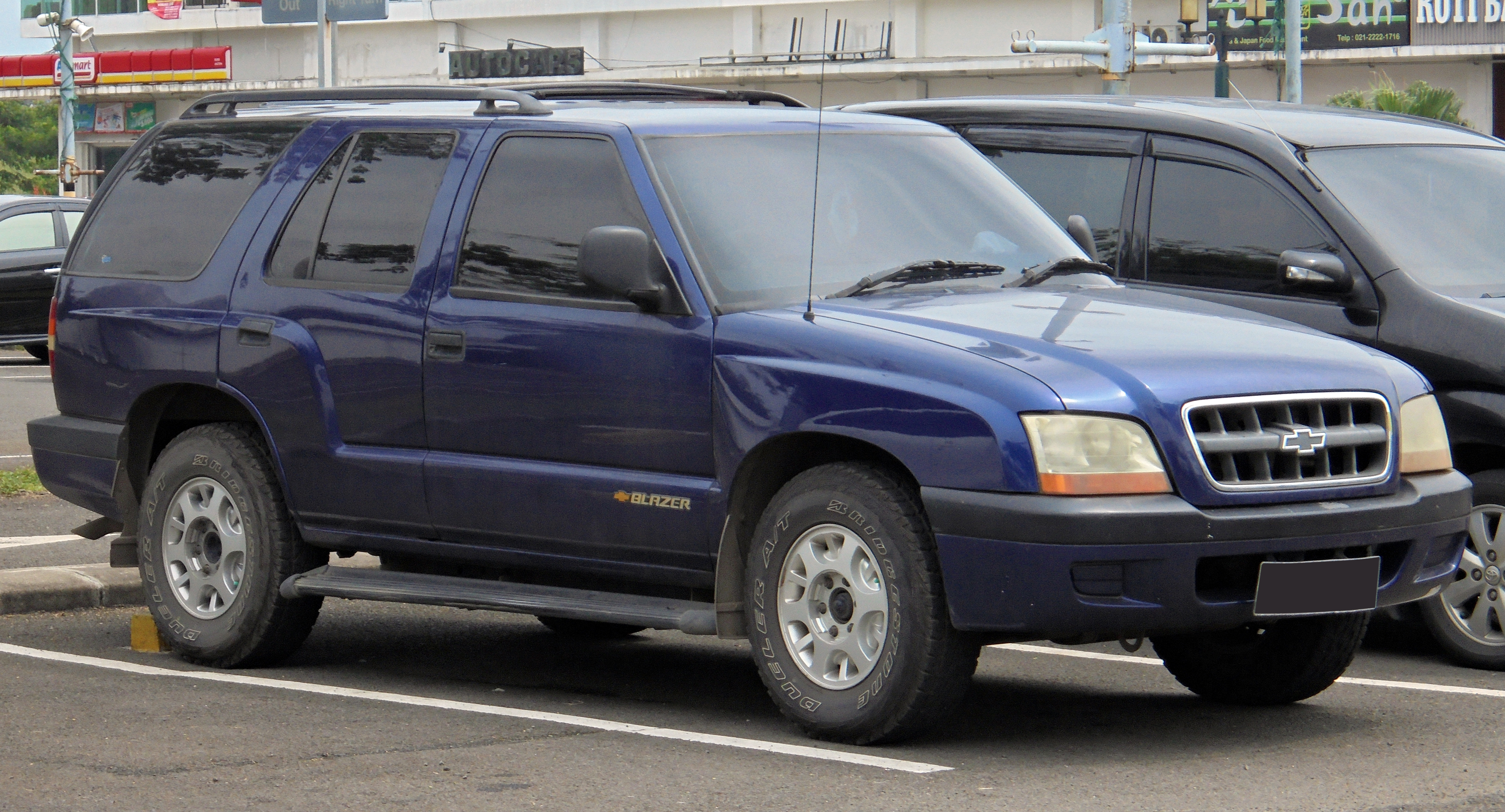 2005 Chevrolet Blazer Montera 4x2 2.2